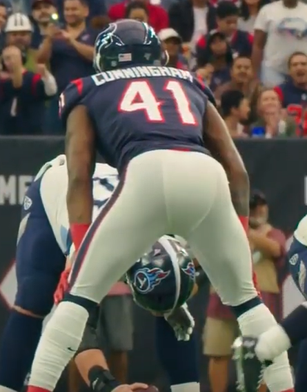 Zach Cunningham in 2019. Image from video Analyzing A.J. Brown's Big Plays vs. Texans | Beneath the Surface, ~ 00:16.